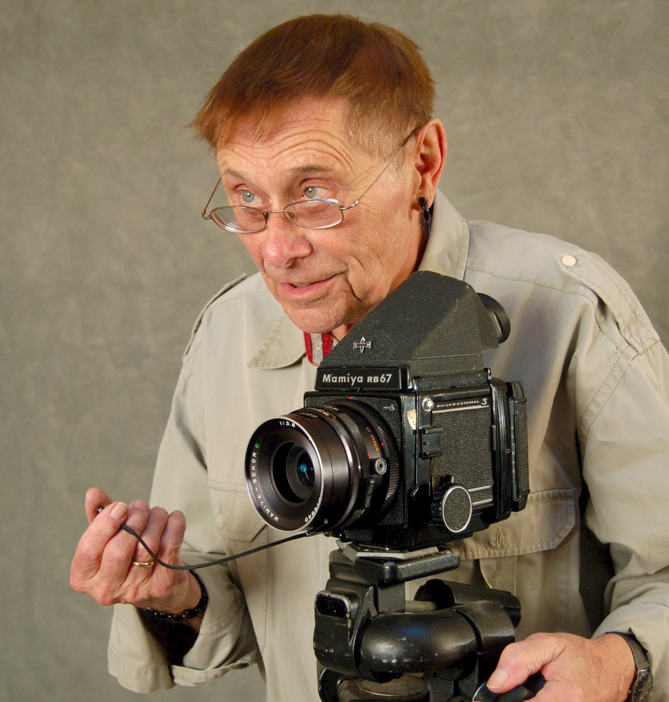 Fakir Musafar Fakir sent me this file to be uploaded to Wikipedia, he understood the CC terms.